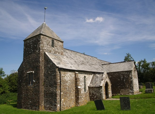 Chapel of St John the Baptist and the Seven Maccabees, Cookbury, Devon, seen from the southwest